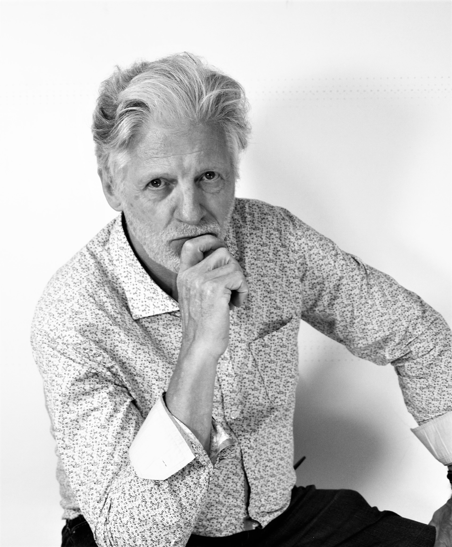 Christian Silvain portrait 2